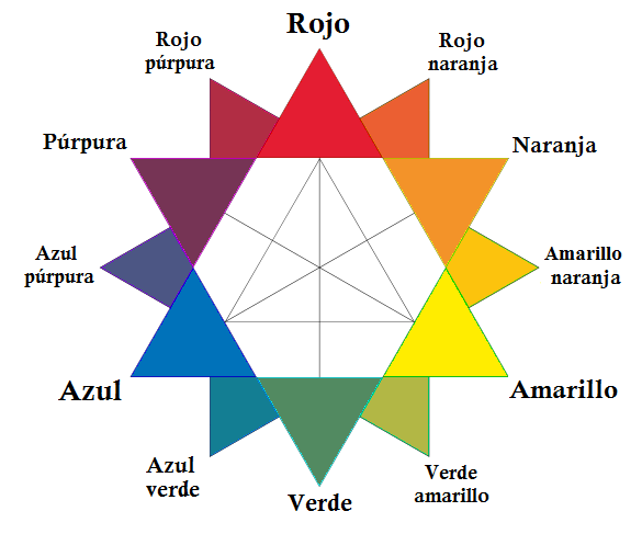 RYB color star